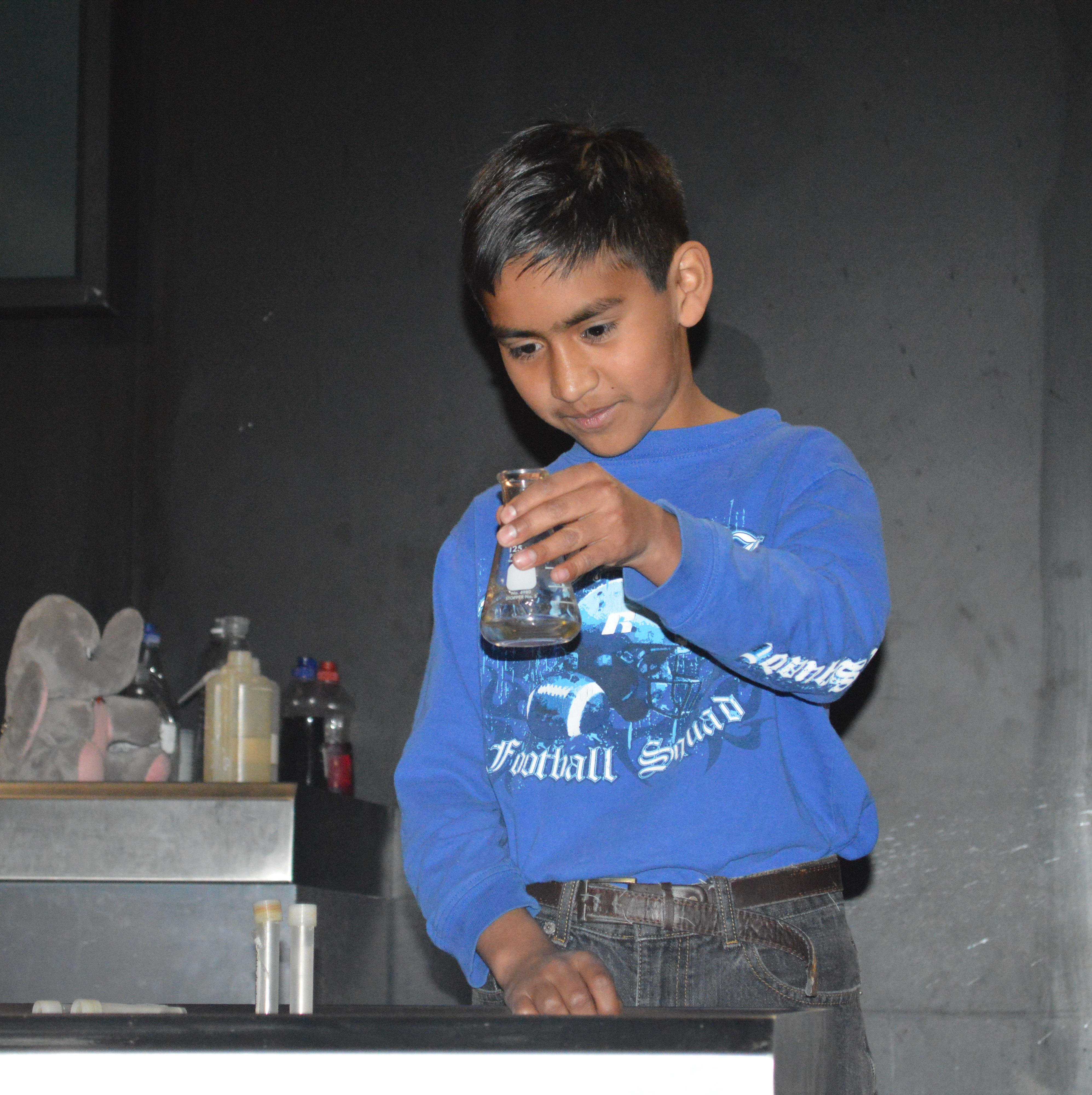 Volunteer for experiment detecting presence of iodine in liquid at Universum at Ciudad Universtaria in Mexico City